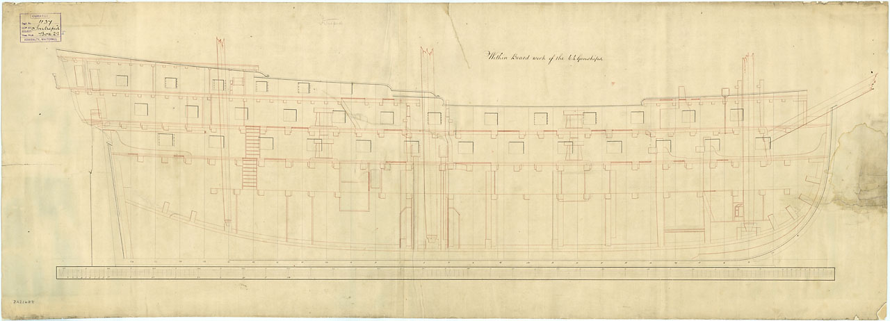 Intrepid class (approved 1765) - Intrepid (1770); Monmouth (1772); Defiance (1772); Nonsuch (1774); Ruby (1776); Vigilant (1774); Eagle (1774); America (1777); Anson (1781); Polyphemus (1782); Magnanime (1780); Sampson (1781); Repulse (1780); Diadem (1782); Standard (1782). Scale: 1:48. Plan showing the inboard profile for 64-gun Third Rate, two-deckers of the Intrepid class (approved 1765). As this plan is undated, it is unknown as to which of the class the plan refers to. The class was built in two batches: those ordered between 1765 and 1769 - Intrepid (1770), Monmouth (1772), Defiance (1772), Nonsuch (1774) and Ruby (1776), and then the second group ordered between 1771 and 1779 - Vigilant (1774), Eagle (1774), America (1777), Anson (1781), Polyphemus (1782), Magnanime (1780), Sampson (1781), Repulse (1780), Diadem (1782), and Standard (1782). INTREPID 1770